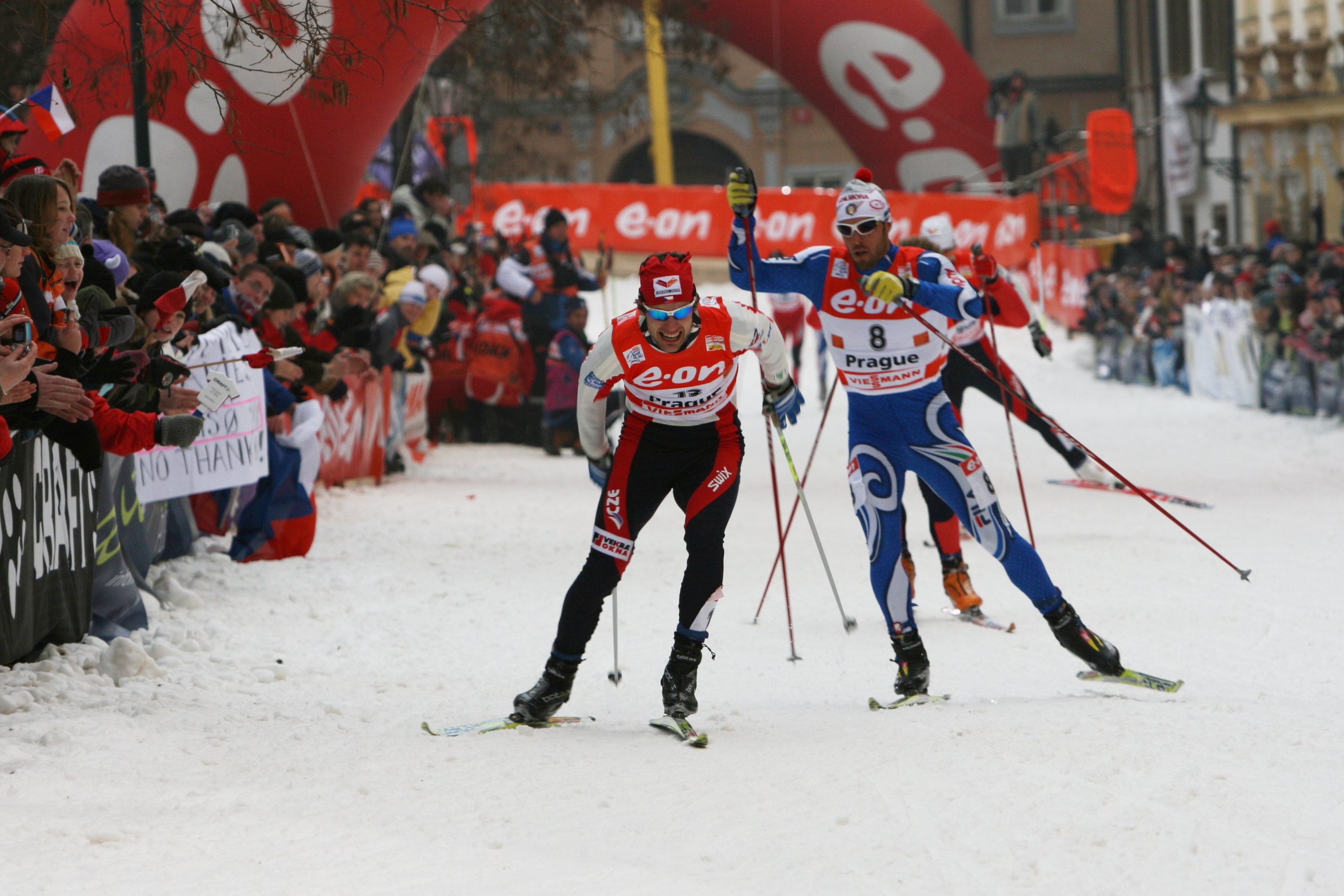 Dušan Kožíšek #13 and Renato Pasini (slightly behind with #8) in the quarterfinals of Tour de Ski in Prague